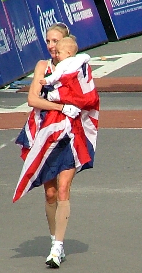 English long-distance runner Paula Radcliffe with daughter Isla at the 2007 New York City Marathon. Photo taken and attributed to Alan Cordova (NYC).